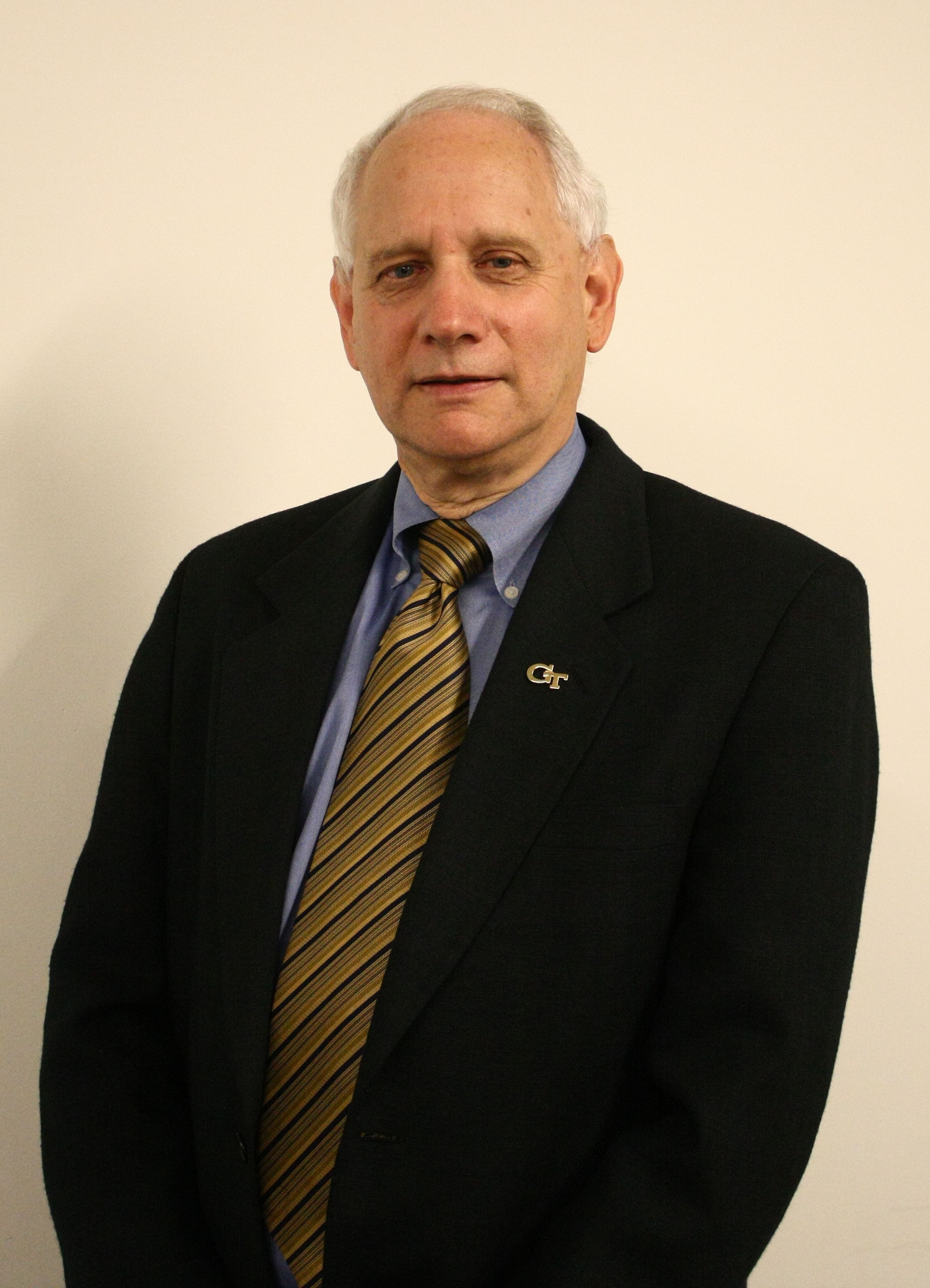 Gary Schuster, Georgia Tech's provost when the picture was taken, at a welcome ceremony for Zvi Galil, the Georgia Tech College of Computing's new dean.